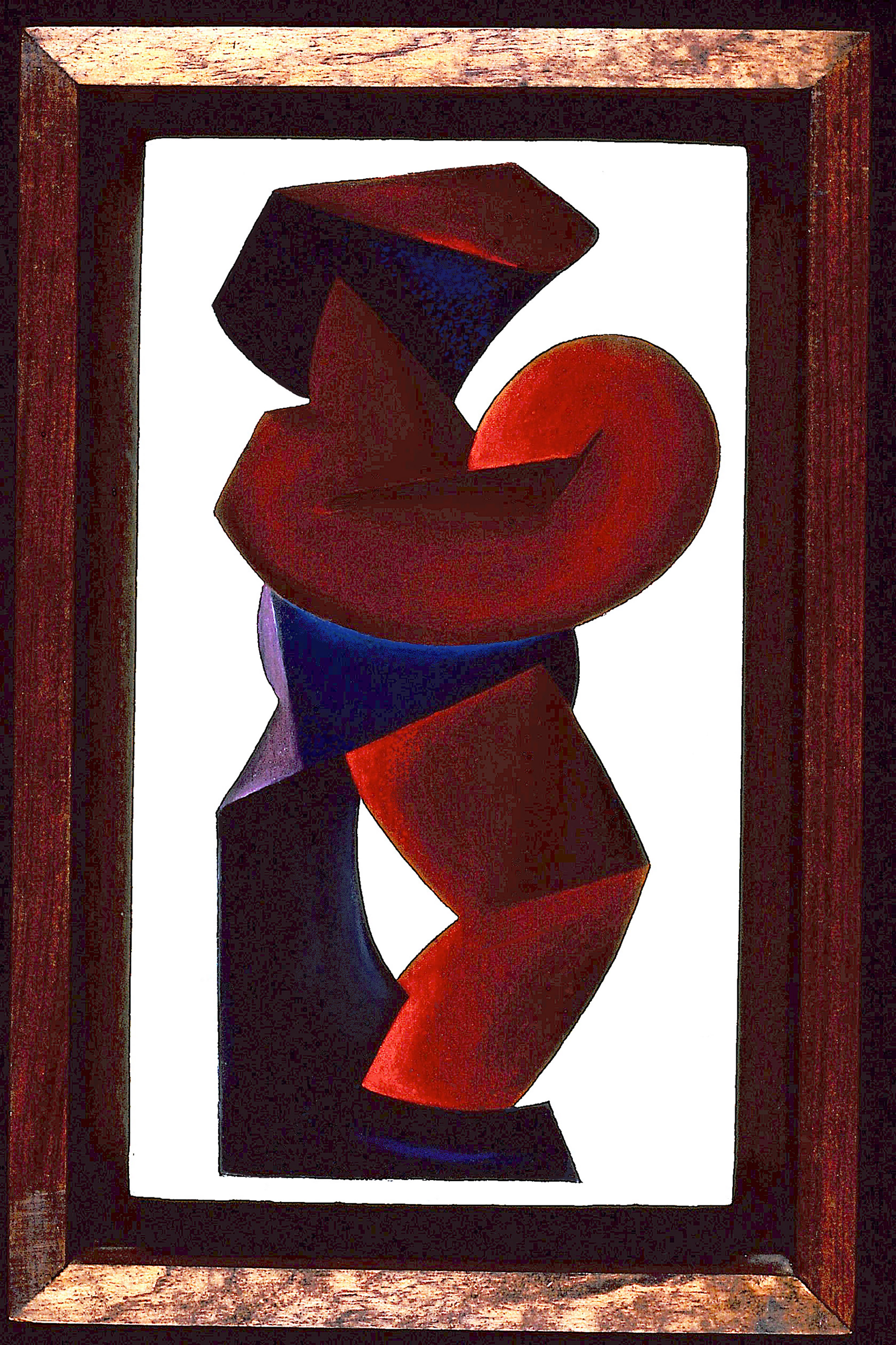 pugilist- oil painting on wood 1988